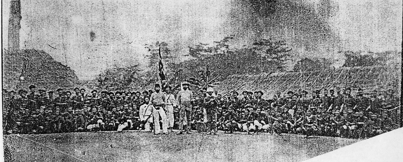 It's a picture of a series of seven and represents the first photographies ever taken at Yaounde. It Shows Curt Morgen, Georg August Zenker, Hörhold, Martin Paul Samba and David Cornelius at the foreground